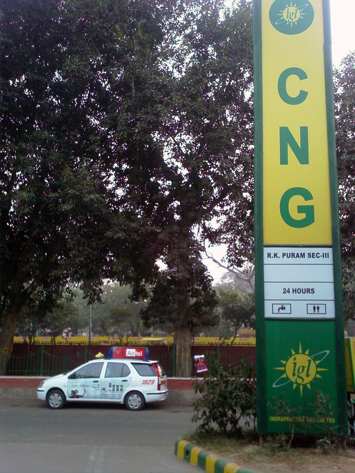 A CNG propelled radio taxi waiting outside a CNG station in R.K. Puram, (as visible from the photgraph), New Delhi, India